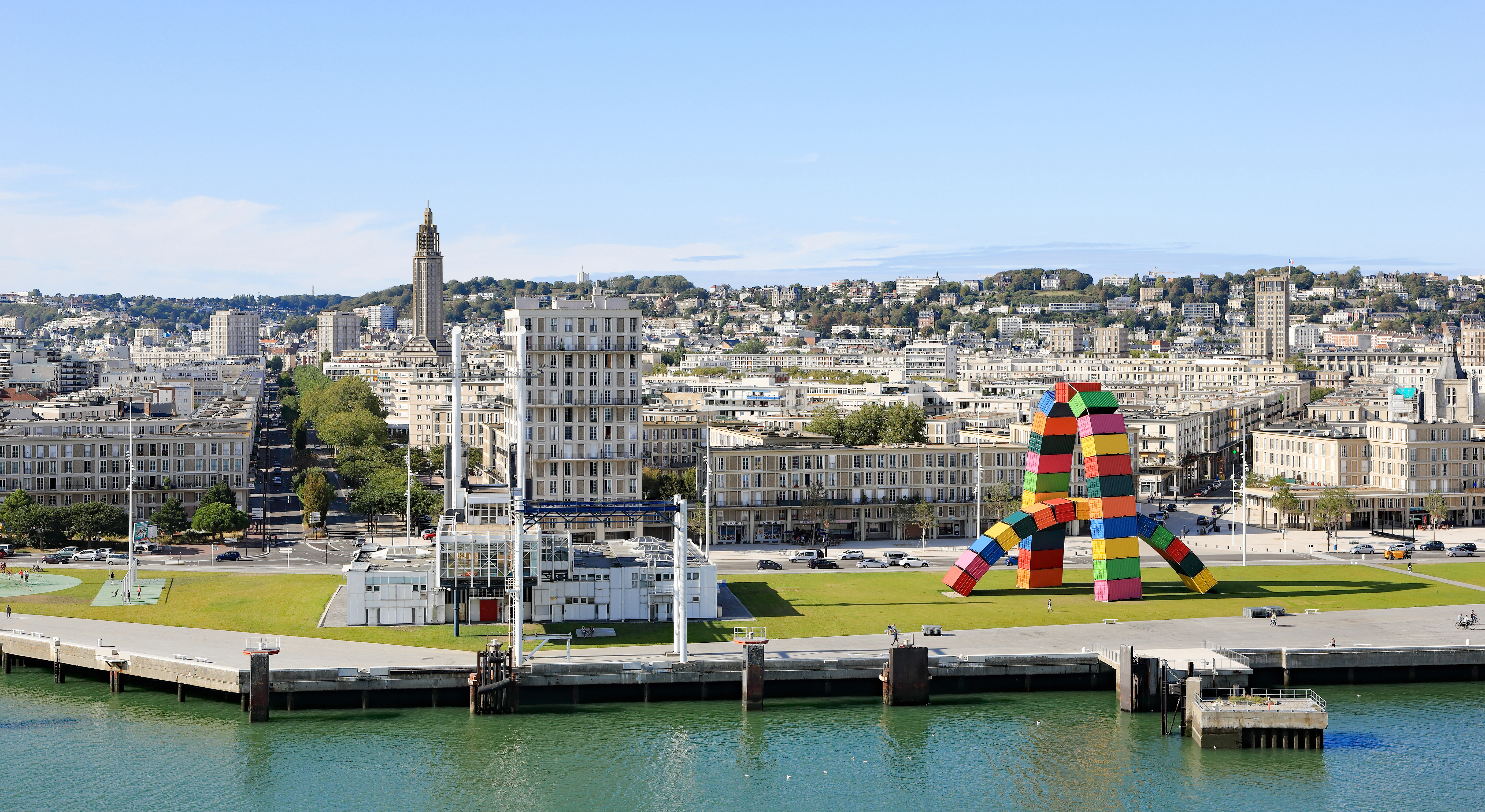 Panorama of Le Havre, listed as UNESCO World Heritage Site Ref. Number 1181